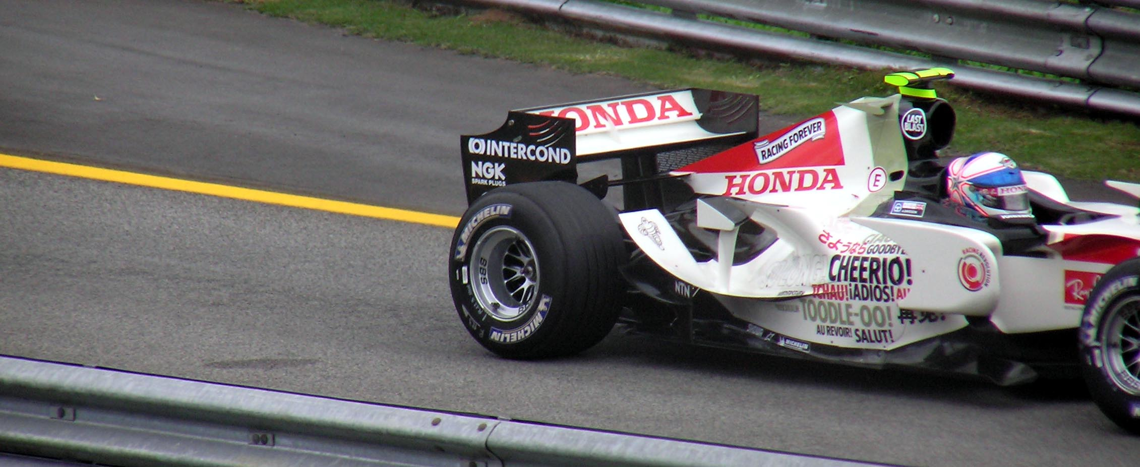 Third car of Honda with messages of separation from British American Tobacco (Lucky Strike).